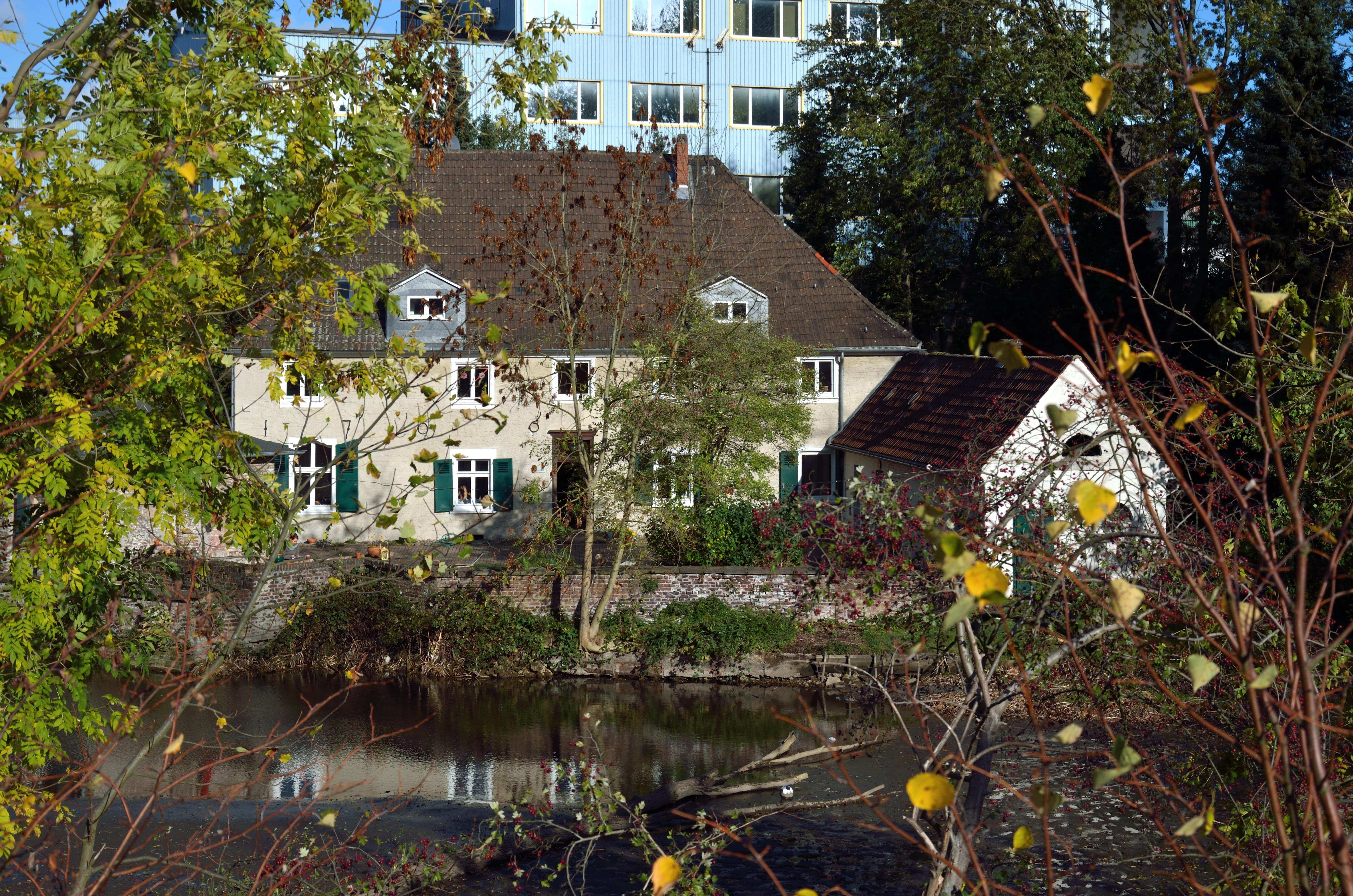 house Haus Crengeldanz in Witten